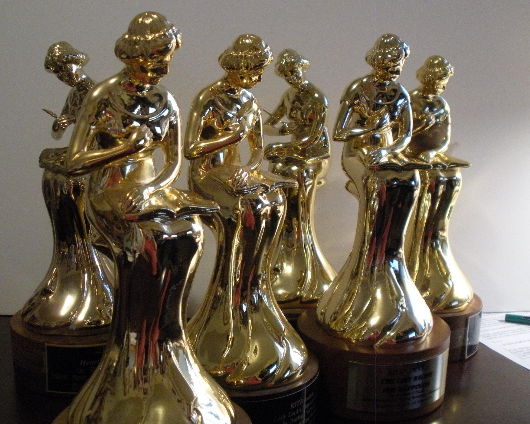 Barbara Samuel O'Neal's six RITA awards, awarded by the Romance Writers of America